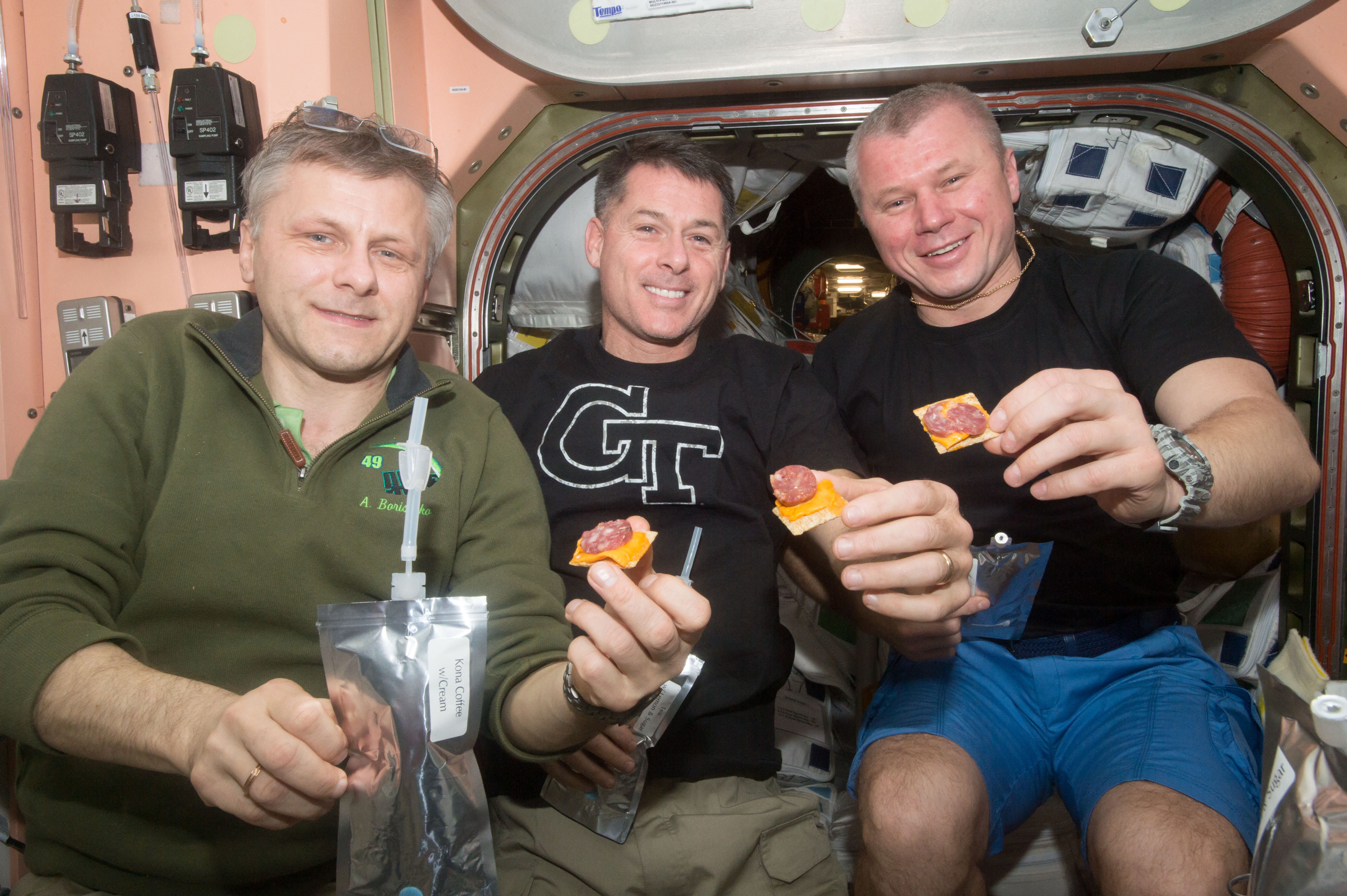 Expedition 50 crewmembers Andrey Borisenko of Roscosmos (left), Shane Kimbrough of NASA (middle), and Oleg Novitskiy of Roscosmos (right) share a snack together aboard the International Space Station. Multinational crews will often come together during meal times.